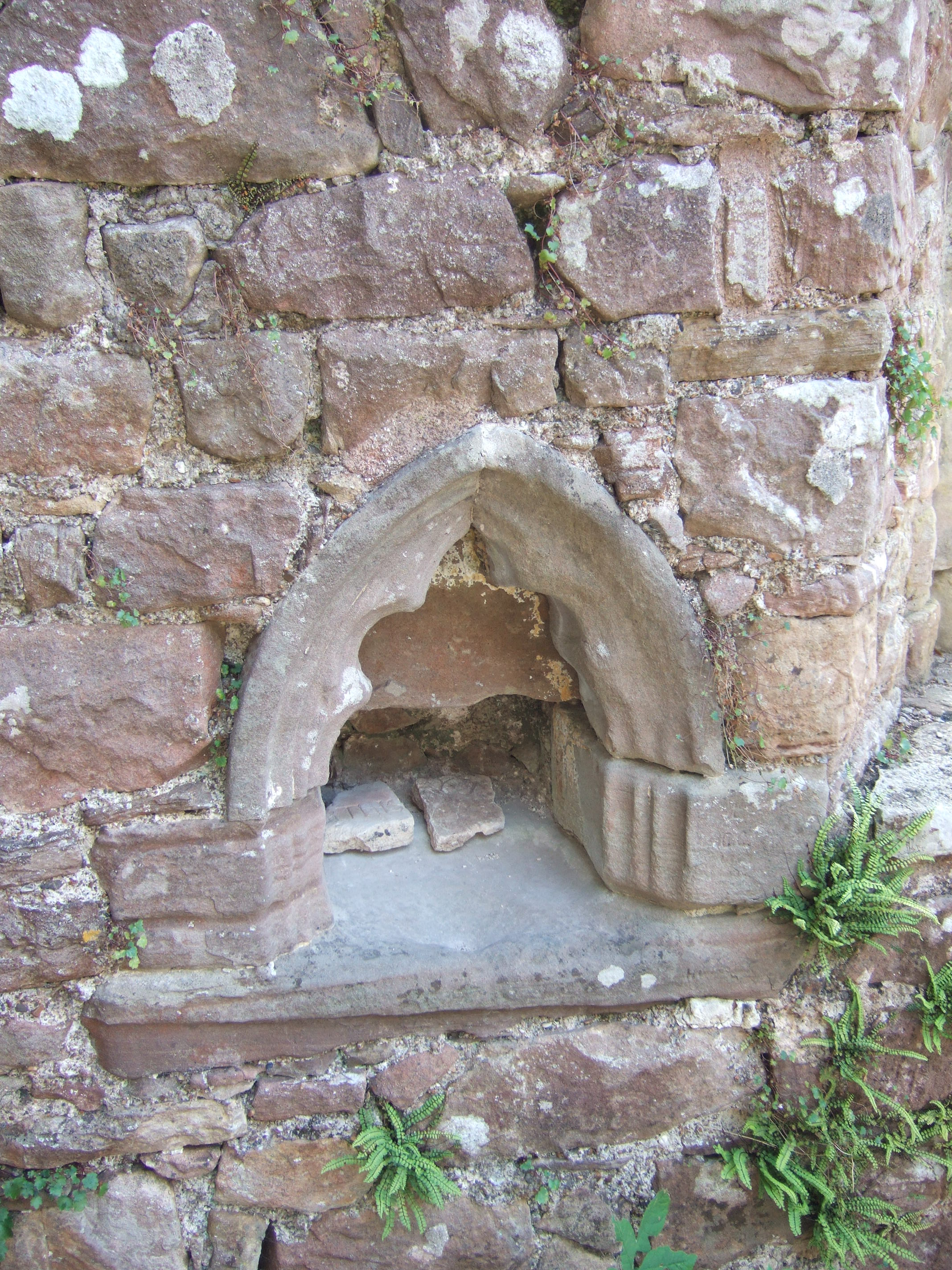 Piscina in St James' church, Lancaut, Wye valley